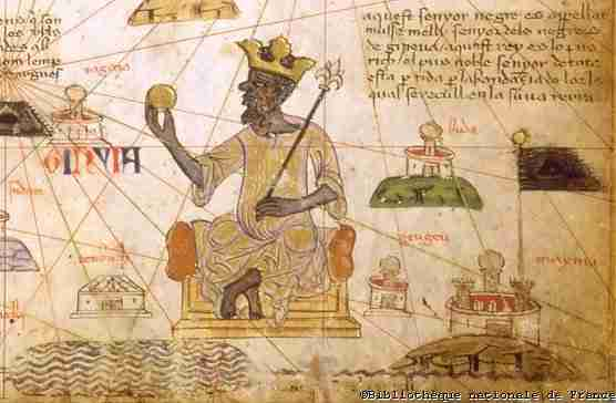 Depiction of Mansa Moussa, emperor of Mali, on a map of Europe and North Africa. Mansa Moussa holds a gold nugget.